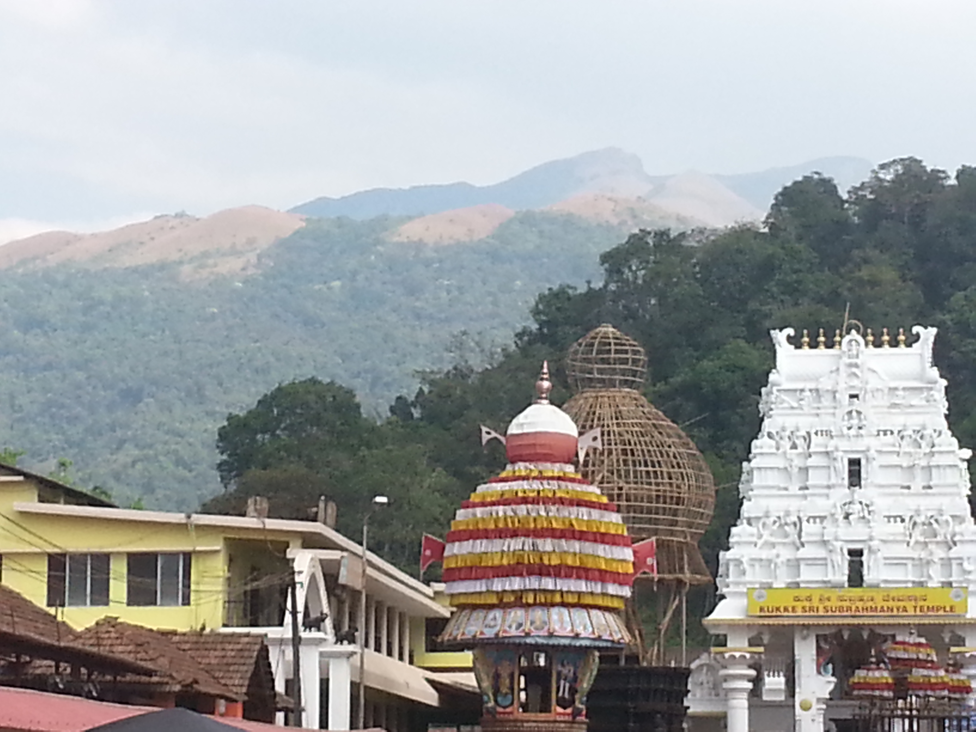 Kukke subramanya temple